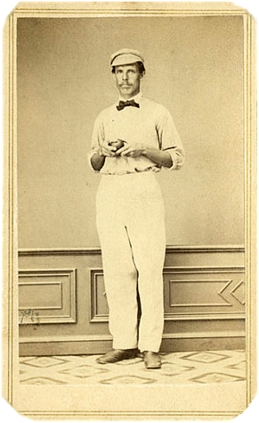 1863 Grand Match At Hoboken Benefit Card of Harry Wright. The First Baseball Card.